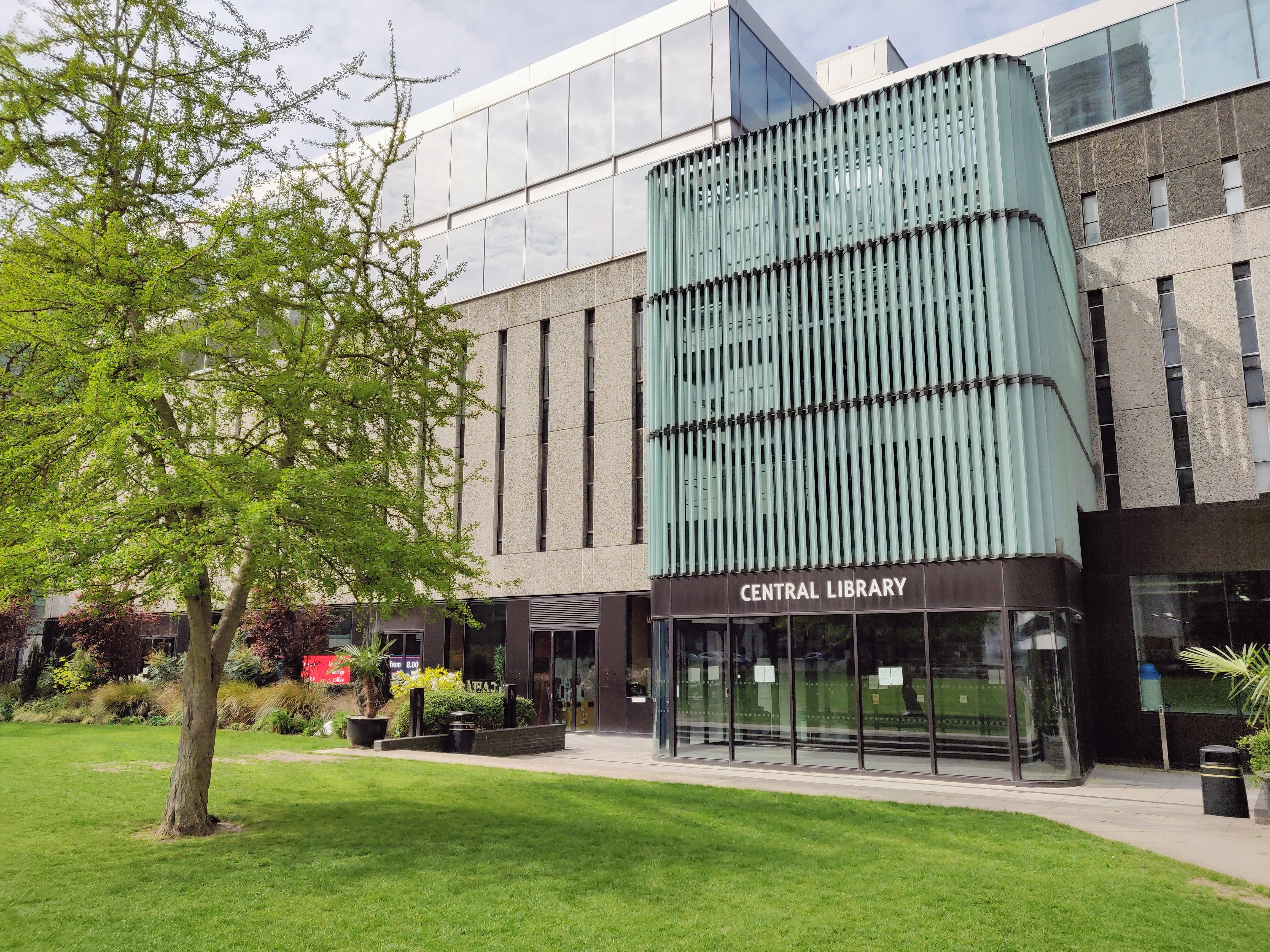 The Central Library of Imperial College London overlooks Queen's Lawn. The middle two floors date from the construction of the building in 1969, whereas extension of the ground floor (visible) and the top two floors are from a later renovation in the late 1990s.